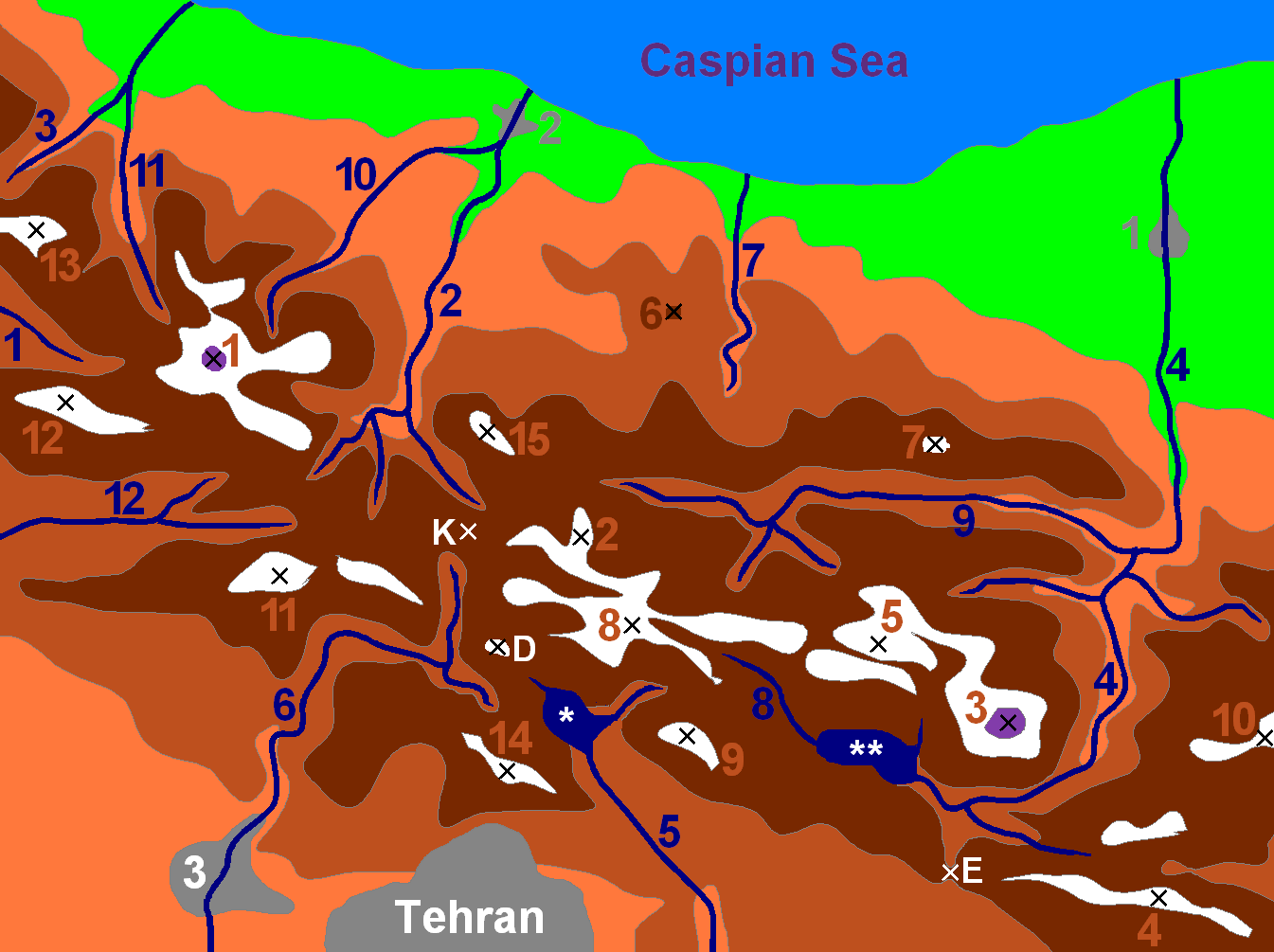 Alborz mountain range in northern Iran.